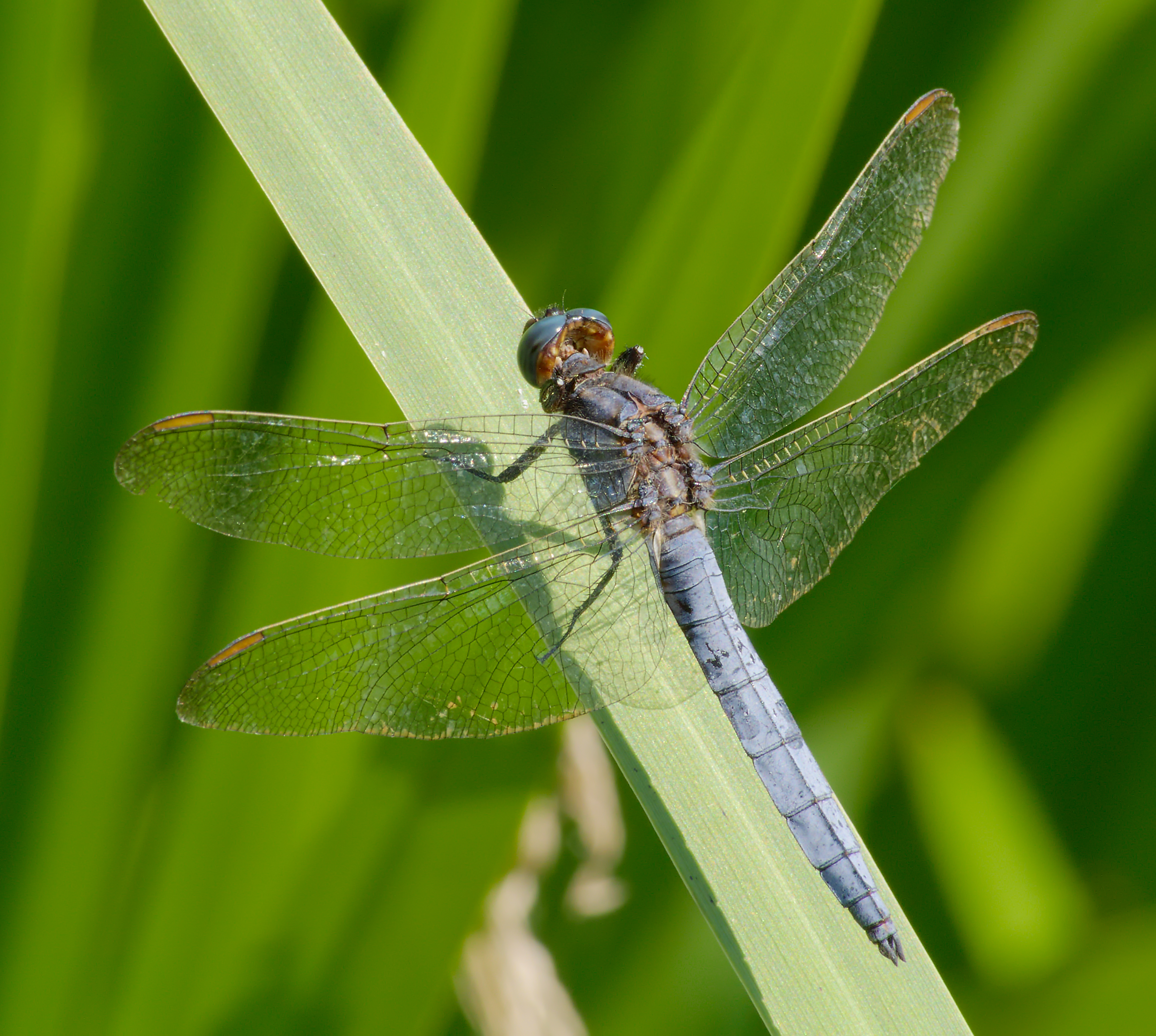 Keeled skimmer - Orthetrum coerulescens, male. Taken by the Schwarzbach in Wöllnau, Doberschütz, Saxony, Germany.